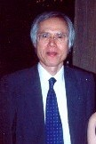 Professor WONG Kwok-pun Laurence ZH:黃國彬教授